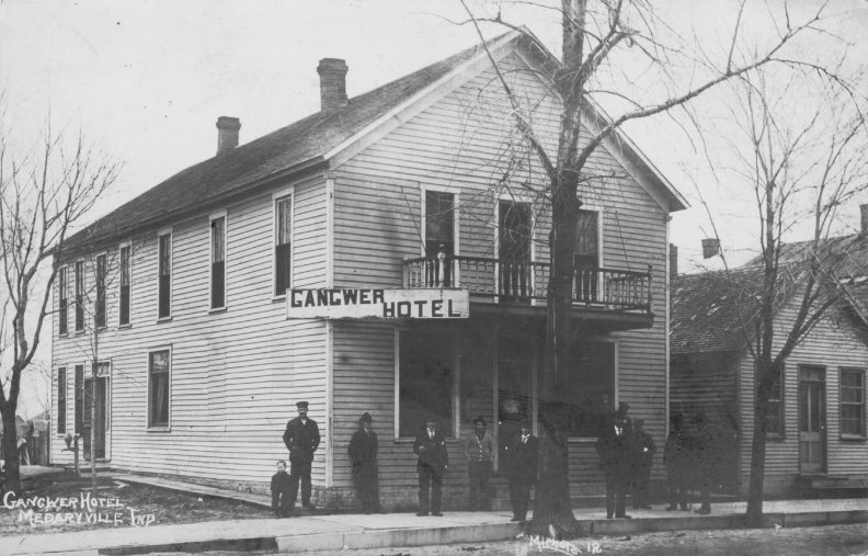 Gangwer Hotel, formerly Evert House, Medaryville, Indiana. The north part (rear of photo) of the hotel was the first house built in Medaryville, by Joseph Bennett Shultz in 1853. The building to the right was a "drummer's house" used by traveling salesmen. Both are currently being restored.